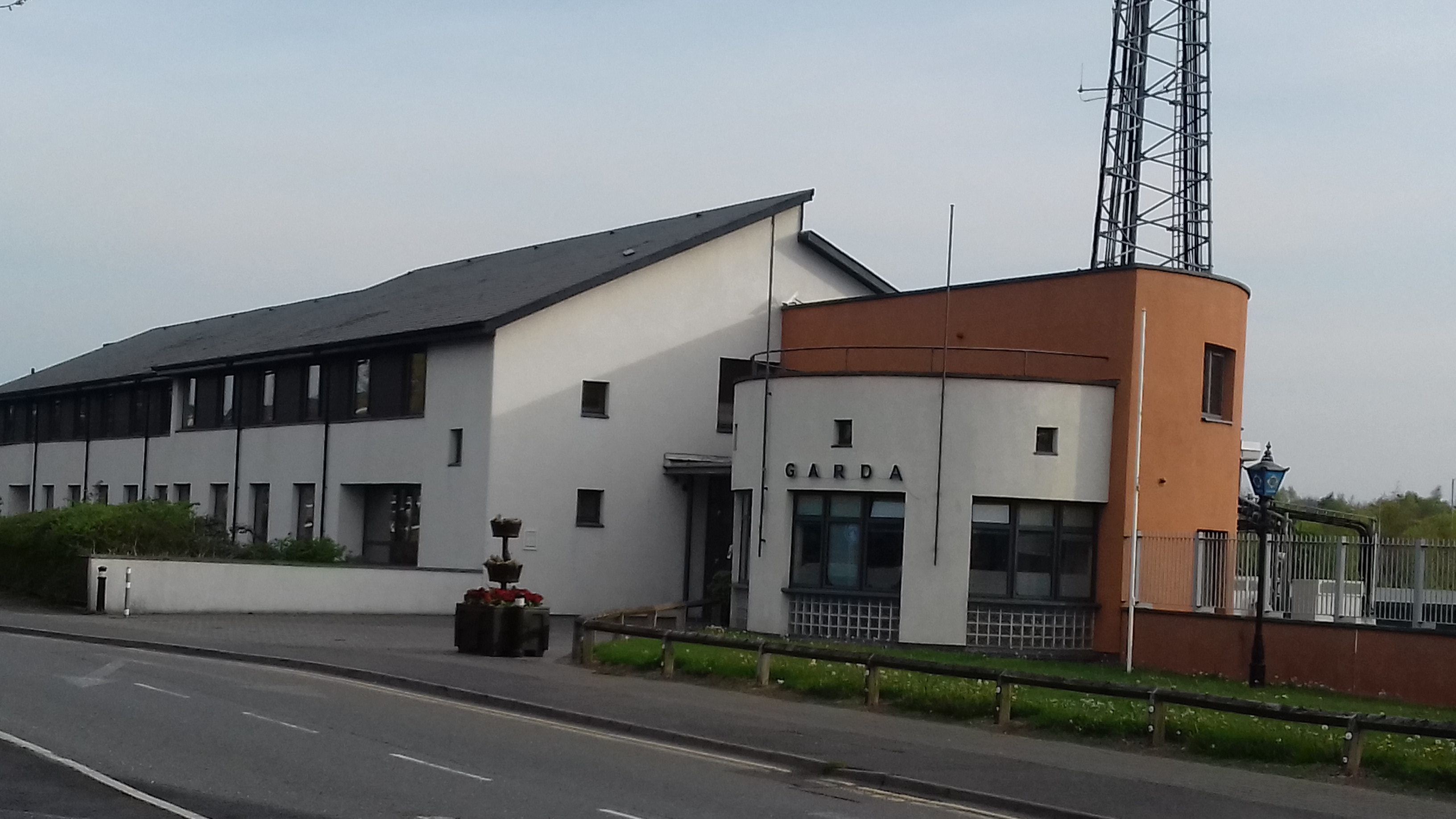 Garda station located on Main Street, Blanchardstown. April 2020 during the COVID-19 pandemic.